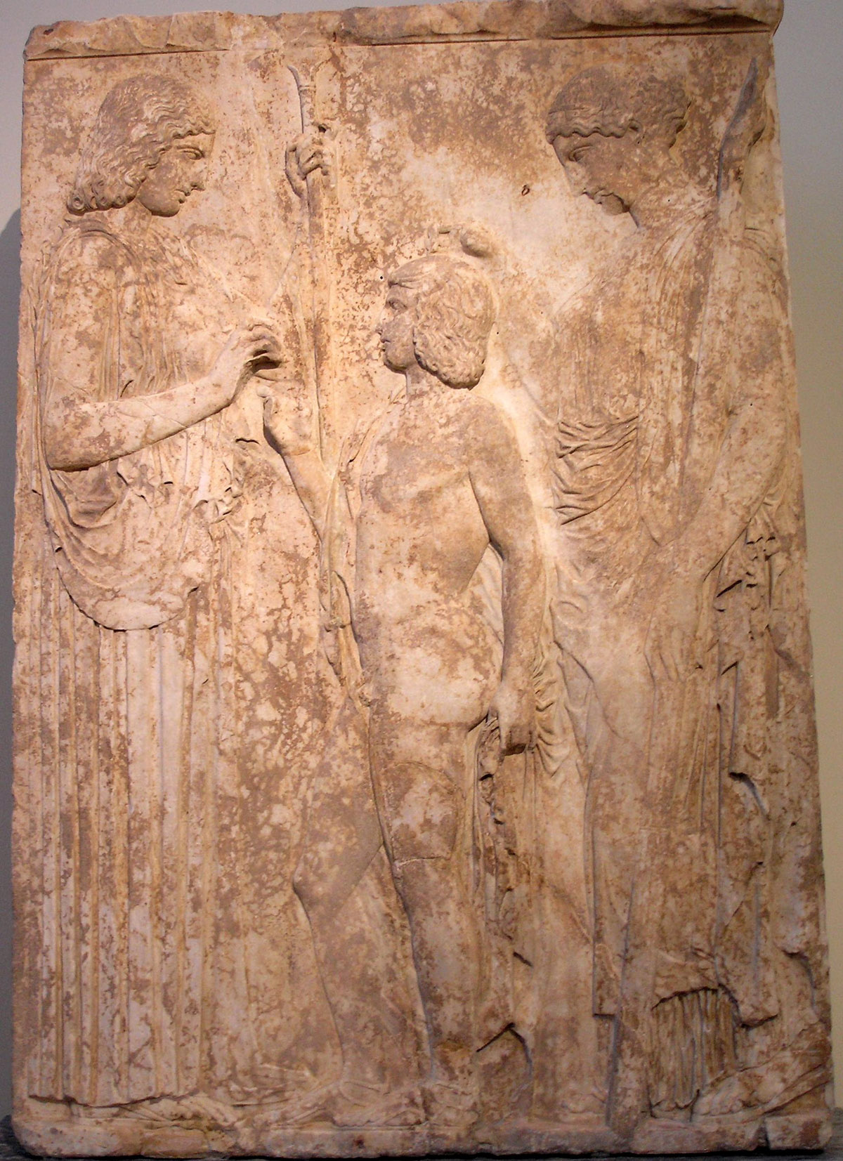 Demeter and Persephone celebrating the Eleusinian Mysteries. On the left Demeter, wearing the peplos and holding a scepter in her left hand, presents Triptolemus with sheafs of wheat, for him to give them to humanity. On the right Persephone, wearing the chiton and a cloak and holding a torch, blesses Triptolemus with her left hand. Votive relief.